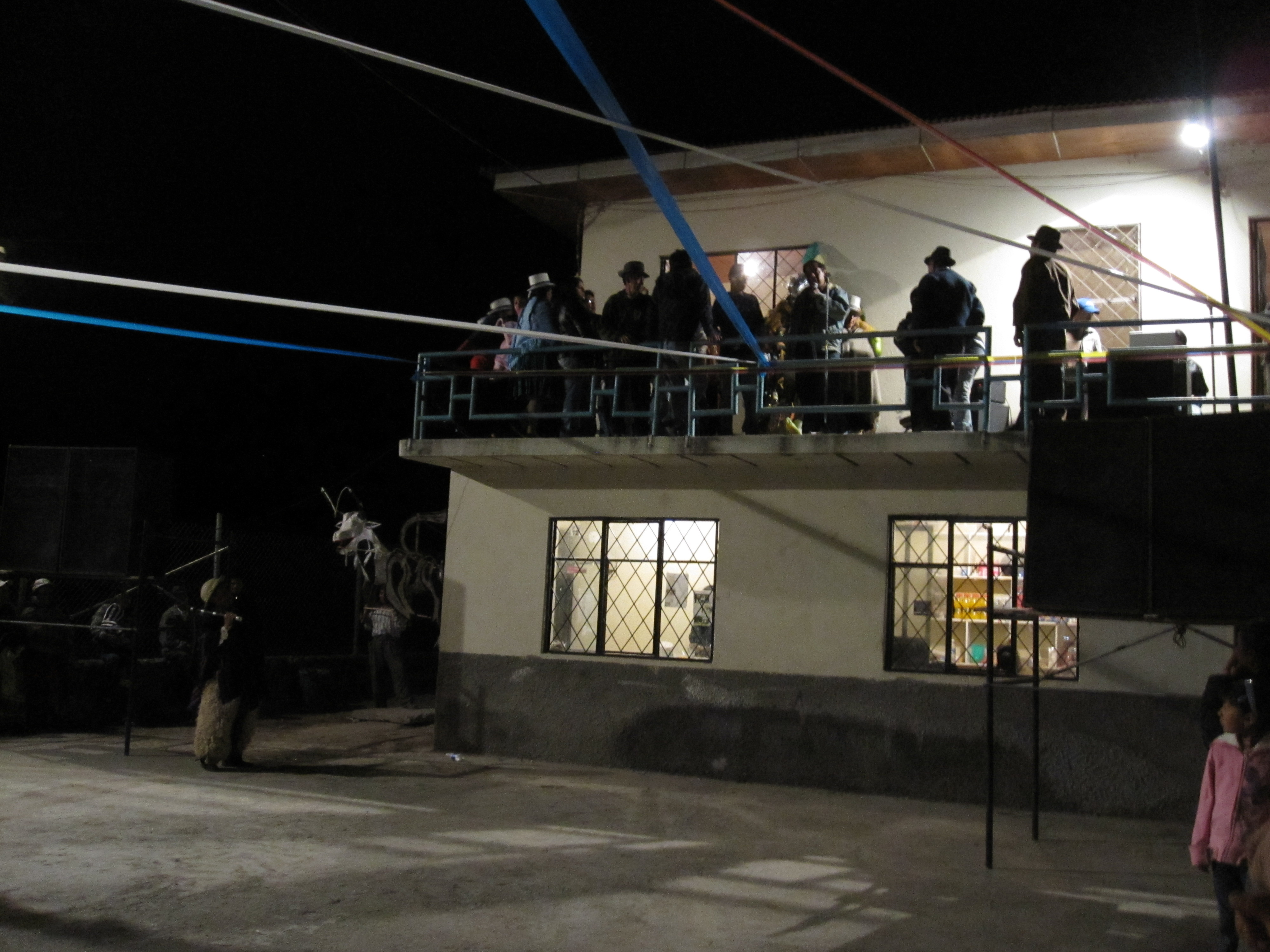 Fiesta in Taniloma, Ecuador. This is at the community center. Note the women in traditional dress on the balcony. At left is the vaca loca which is about to be lit.